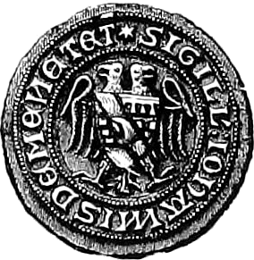 Seal of John Menteith, circa 1297.